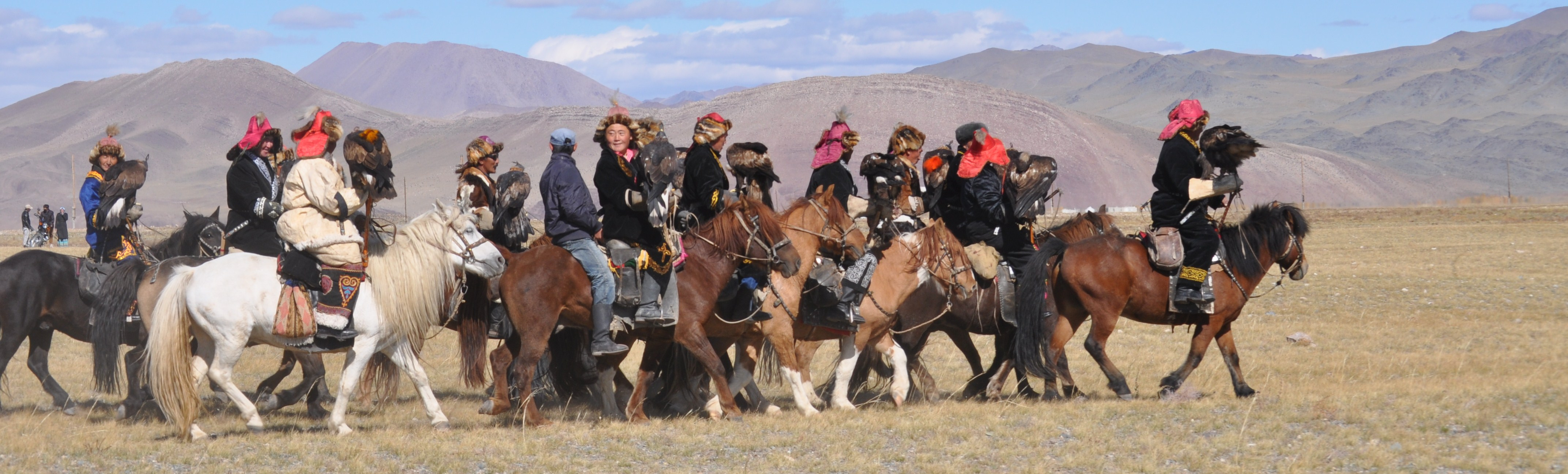 Kazakh eagle hunters in Olgii, Mongolia.